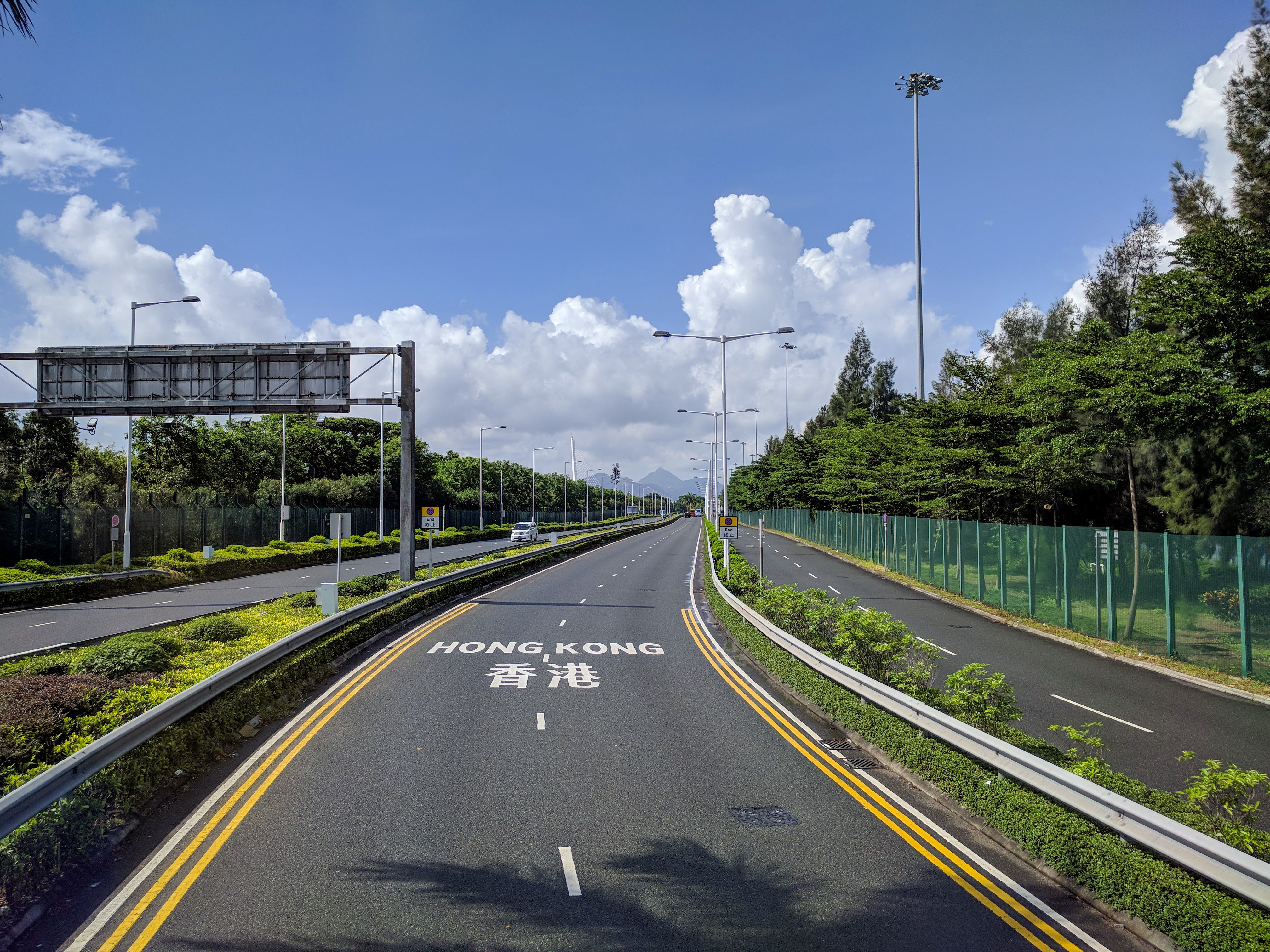 Shenzhen Bay Bridge To HK on Shenzhen Side